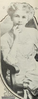 "THE WOMAN CITIZEN" Anna J. Hardwicke Pennybacker Mrs. Percy V. Pennybacker From Texas President, President, National Federation of Women's Clubs, 1912-1914